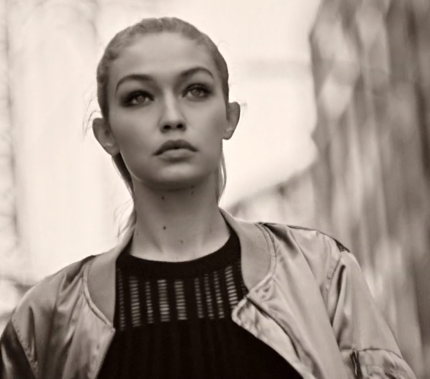 A fashion film, starring Gigi Hadid, directed by James Franco. Shot at Brooklyn’s famous Gleason’s Gym.